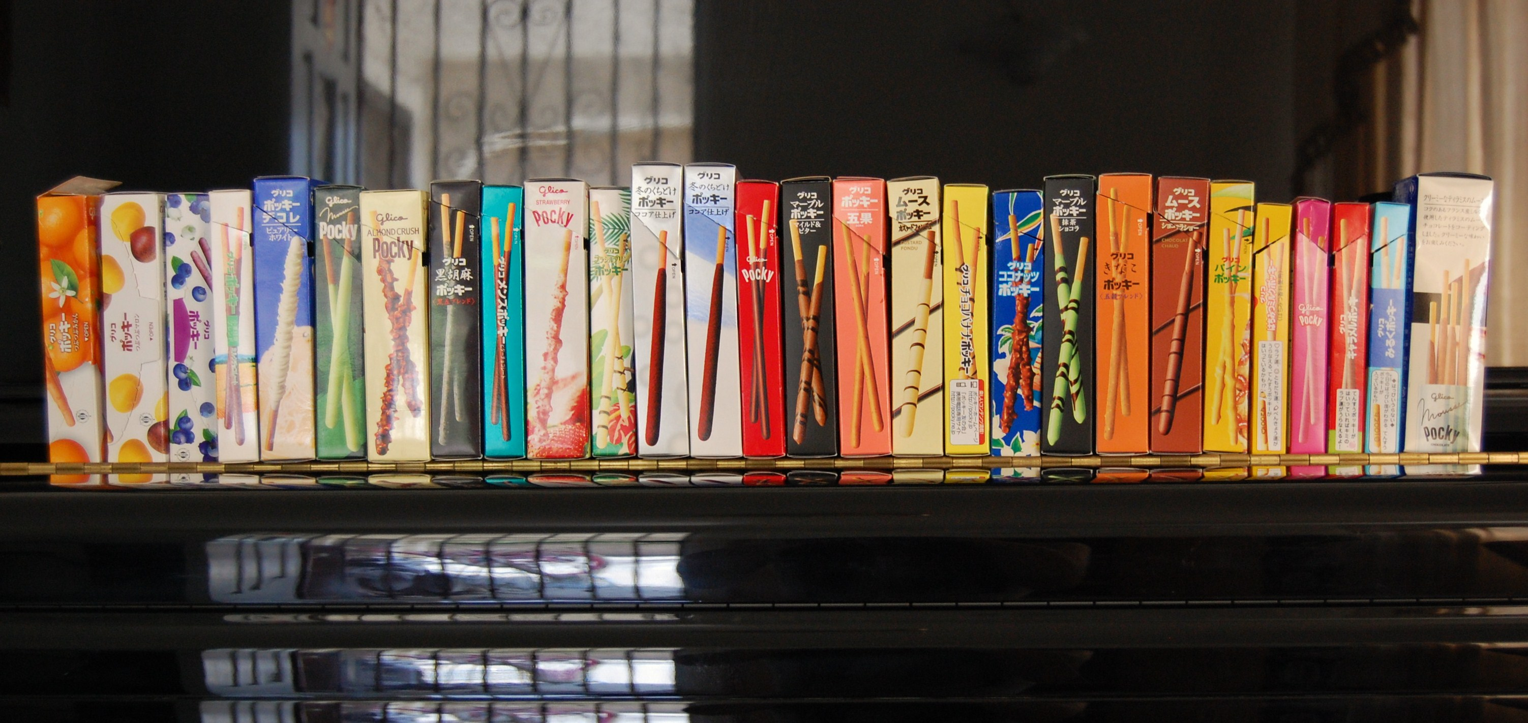 8 new ones since the last update